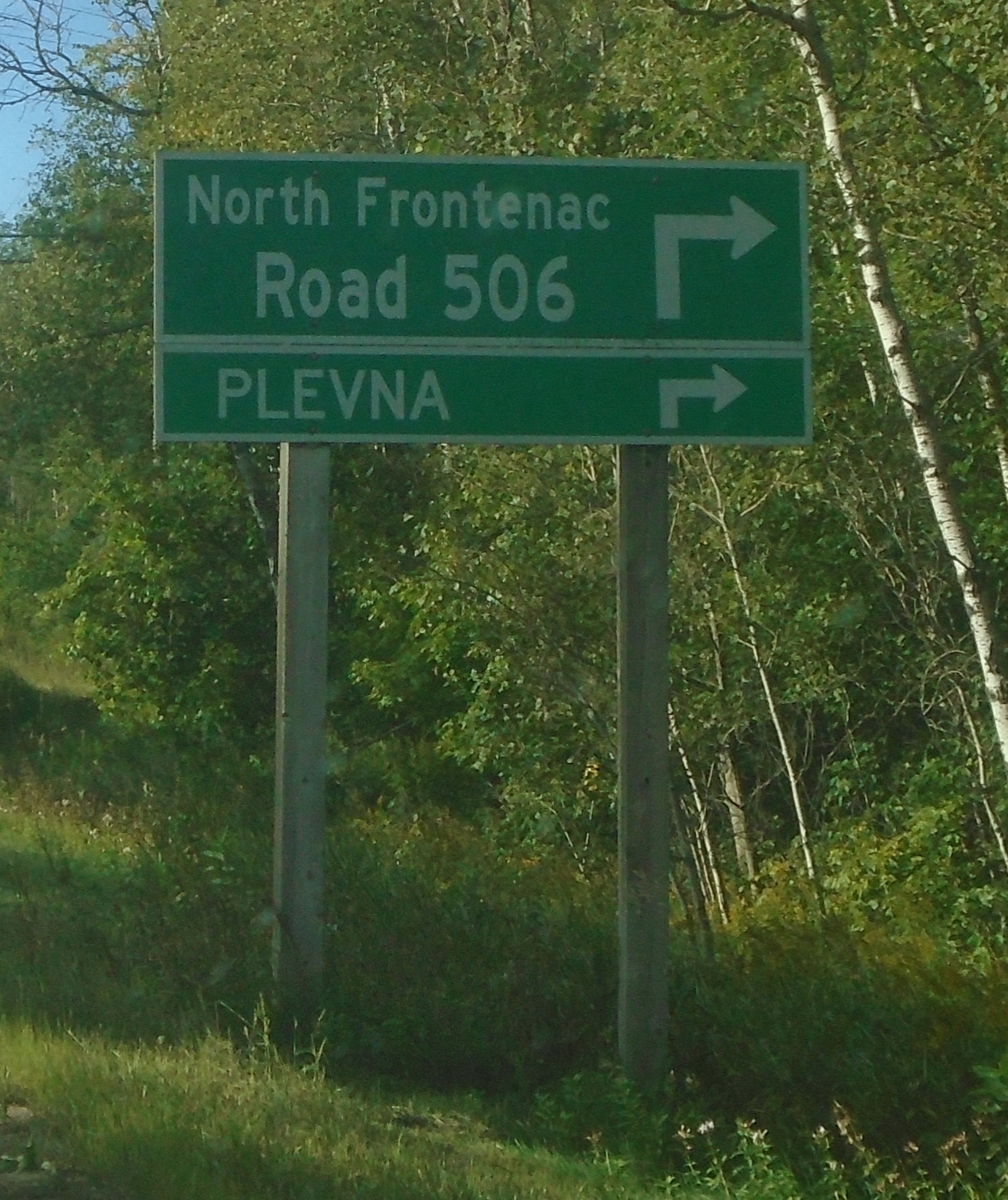 This is a photograph of a guide sign at a junction of Township Road 506 in North Frontenac Township, Frontenac County, Ontario.